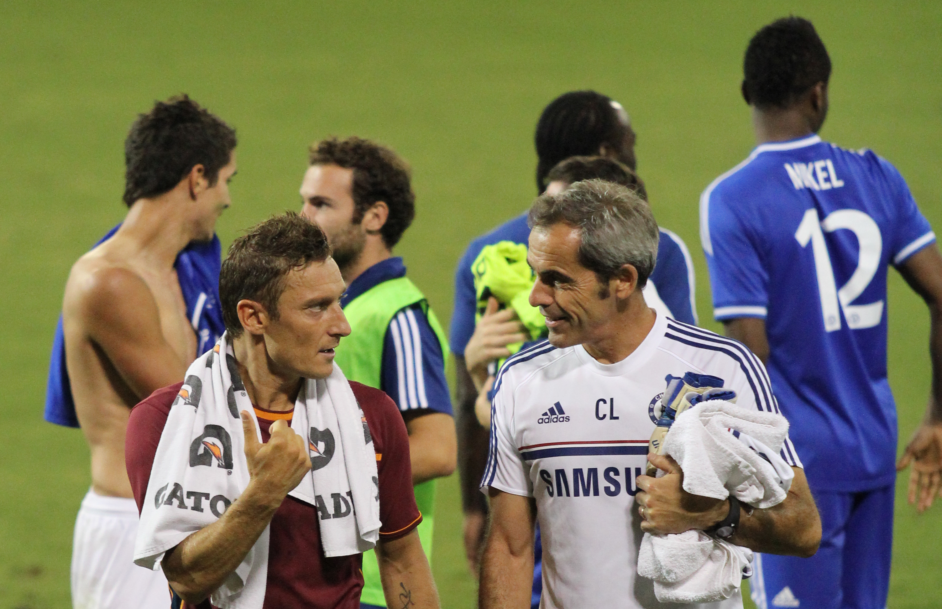 Chelsea vs. AS Roma at RFK Stadium, Washington, DC August 10, 2013